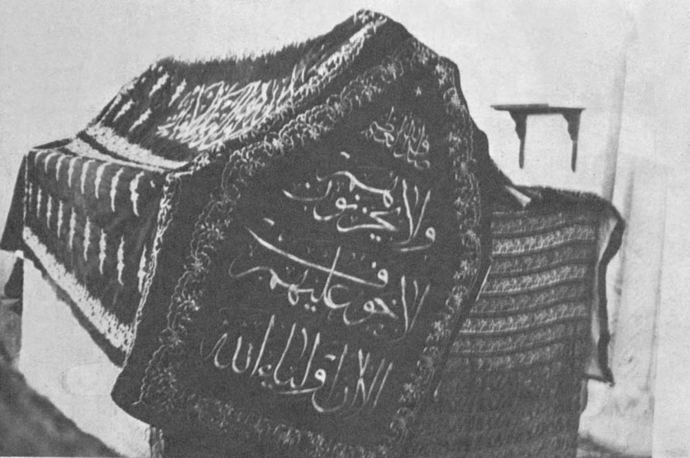 Tomb of Suleyman Shah at Qal'at Ja'bar Castle in Syria.